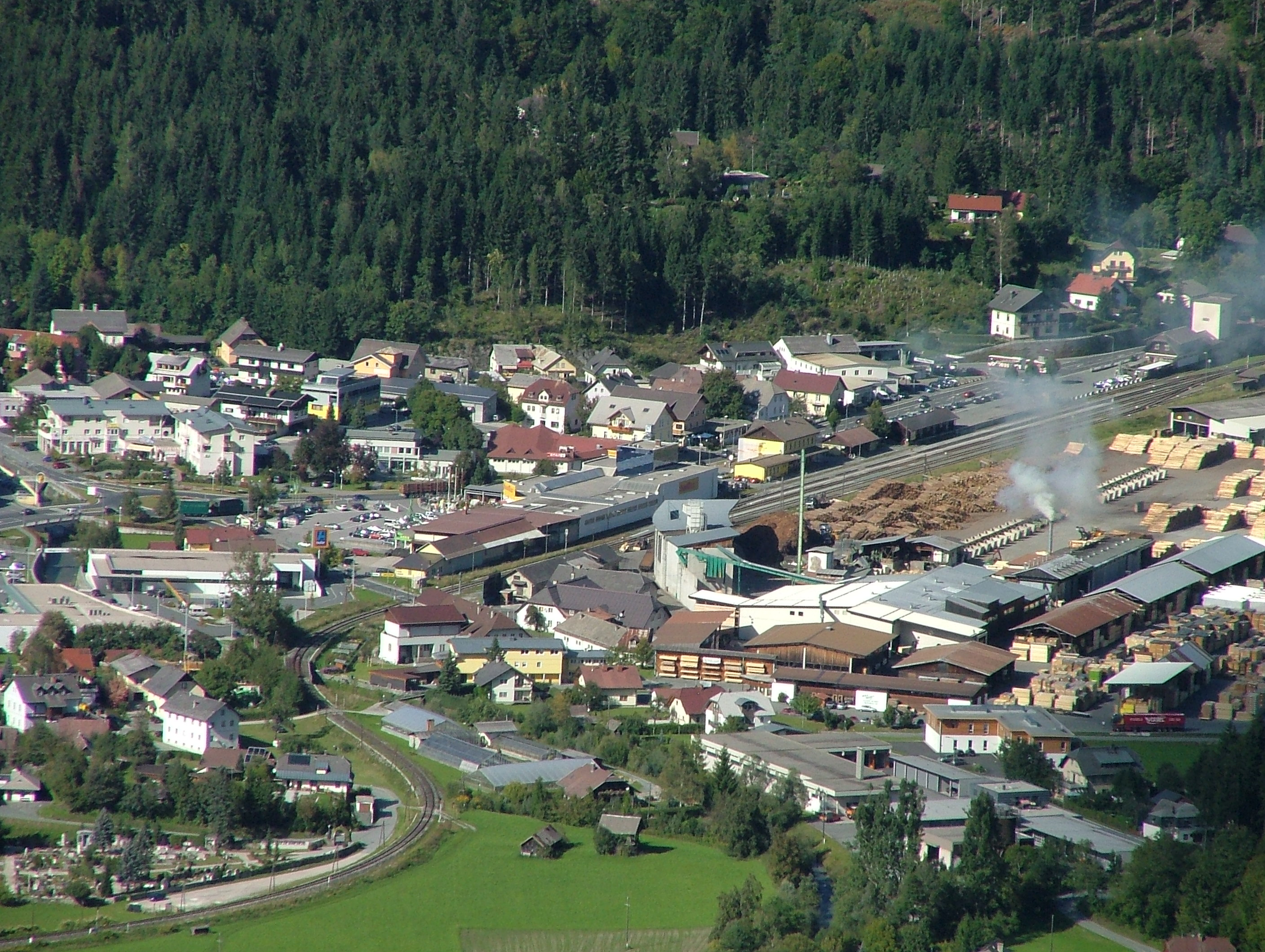 top view of Hermagor